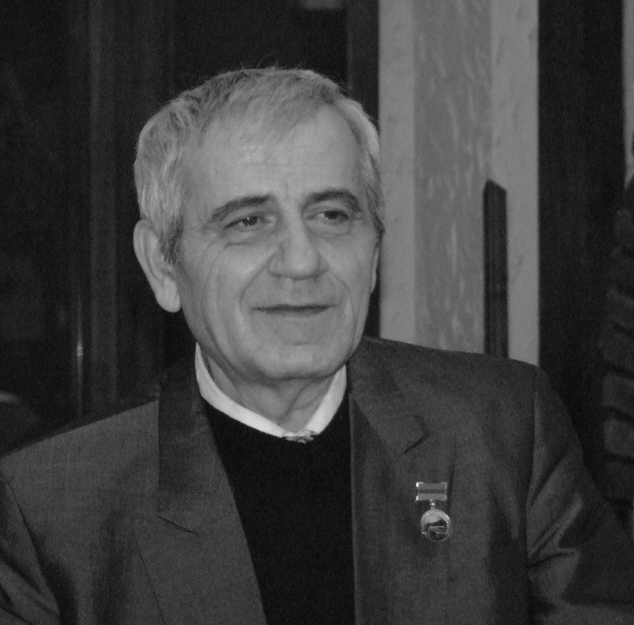 This photo has been taken when Ruben Sargsyan has been awarded an Armenian State Prize in Composition